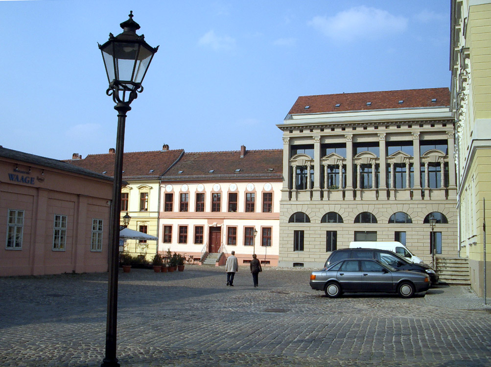 New Market Nr. 5 in Potsdam, Germany